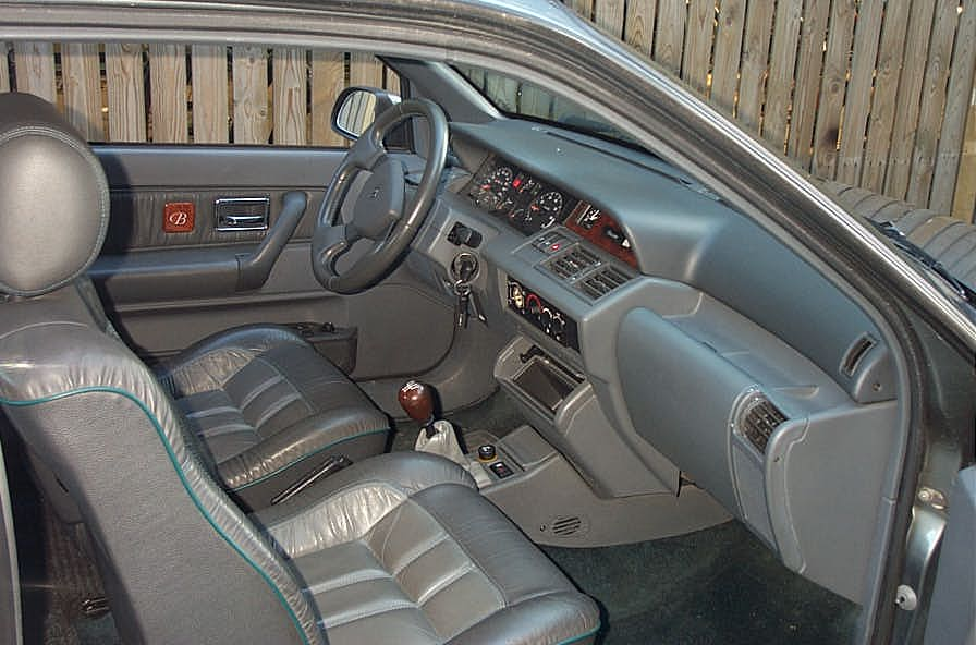 Interior of 1993 Renault Clio Baccara 1.8i (1794cc), the luxury version of the Clio. Leather + wood interior and power everything, this car was sold new in Italy.